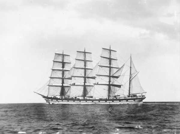 Creator unknown. Black and white image of 4 masted sailing ship Loch Nevis. Item held by State Library of Victoria as part of Malcolm Brodie shipping collection. Item number: H99.220/2492. Format: gelatin silver; 15.8 x 20.8 cm. photograph: gelatin silver ; 8.8 x 12.9 cm. Photograph taken between 1894 and 1900.